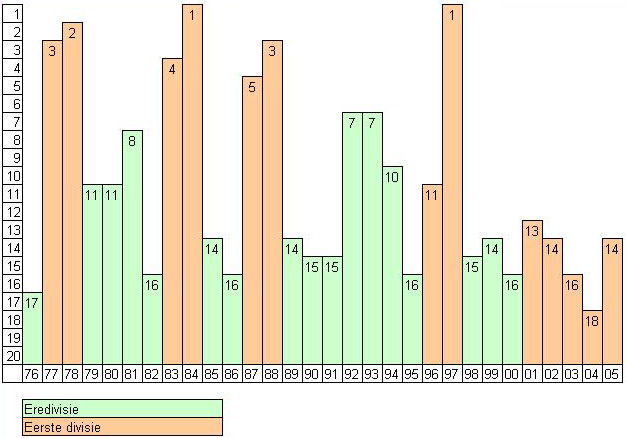 Dutch league positions of MVV, last 30 seasons